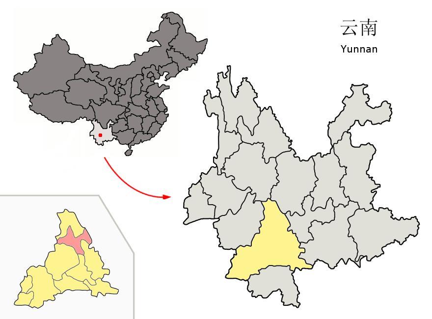 Location of Zhenyuan County (pink) and Pu'er Prefecture (yellow) within Yunnan province of China Map drawn in september 2007 using various sources, mainly : Yunnan province administrative regions GIS data: 1:1M, County level, 1990 Yunnan Counties map from